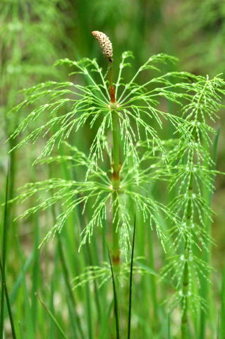 Species: Equisetum sylvaticum. Picture taken in Commanster, Belgian High Ardennes.